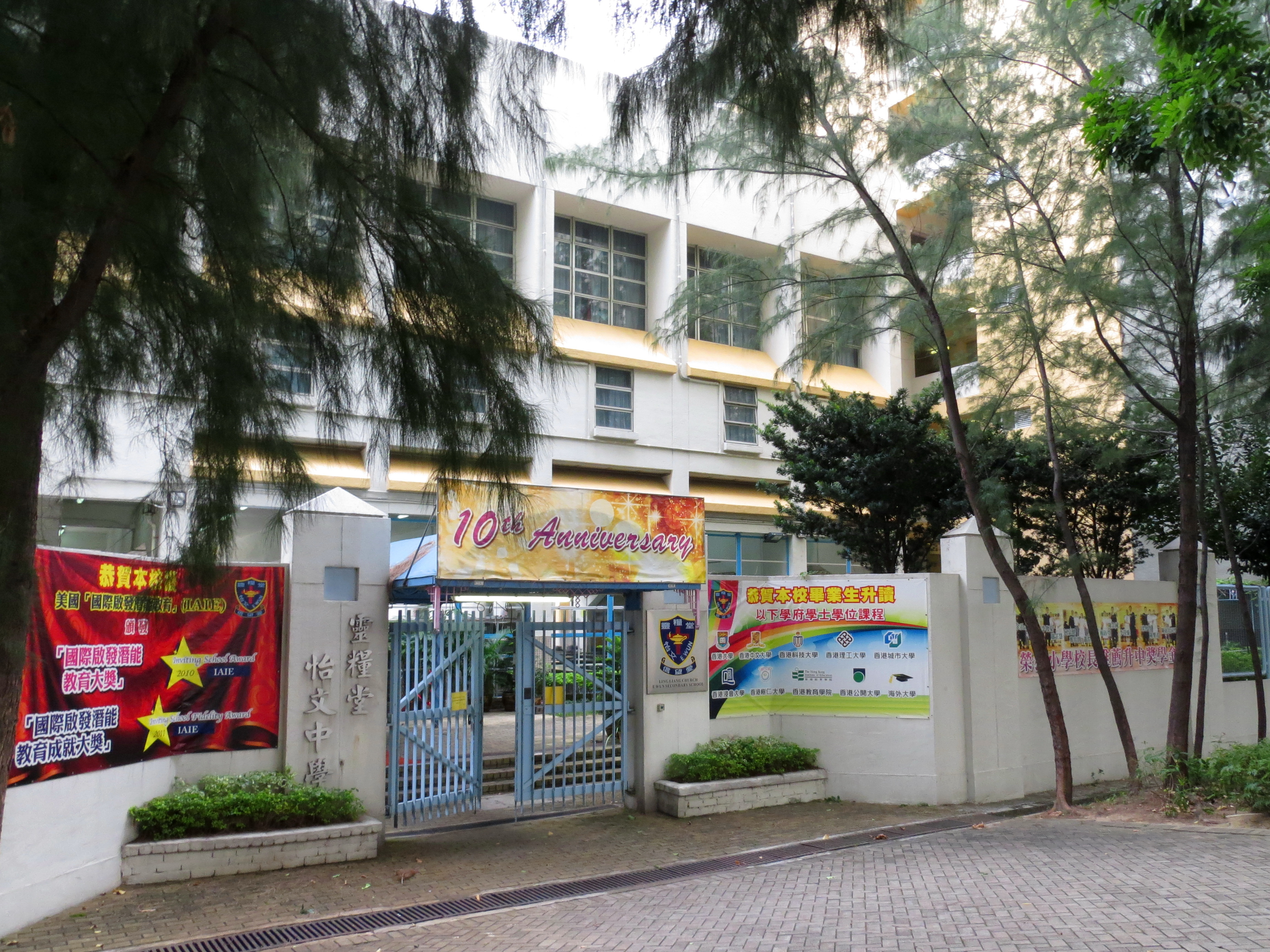 Ling Liang Church E Wun Secondary School, Tung Chung, Lantau Island, Hong Kong.